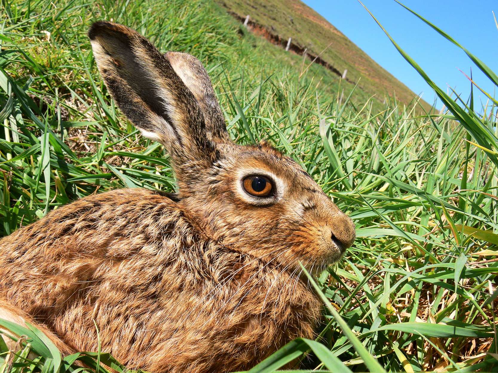 A Brown Hare, Lepus capensis - taken in south east Australia